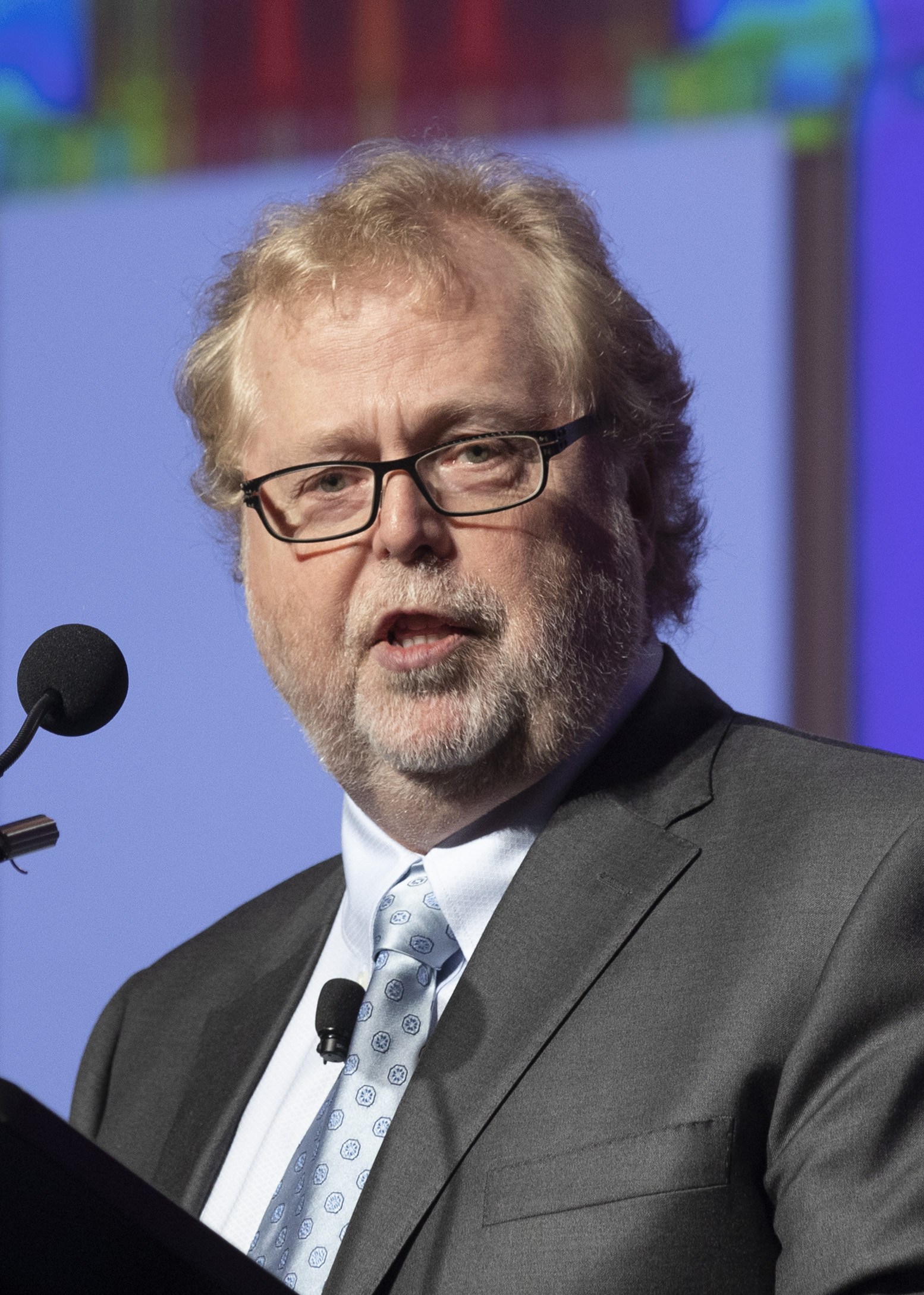 Special Guest Nathan Myhrvold, Founder and Chief Executive Officer, Intellectual Ventures gives his address entitled "Boosting Innovation in Nuclear Energy: Meeting the Demand for Clean Energy to Power the 21st Century" during the NRC's 31st annual Regulatory Information Conference in Rockville, Md. Visit the Nuclear Regulatory Commission's website at . Photo Usage Guidelines: Privacy Policy: . For additional information, or to comment on this photo contact: OPA Resource .